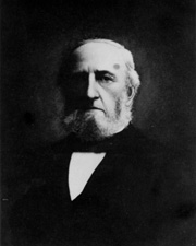 Daniel T. Jewett